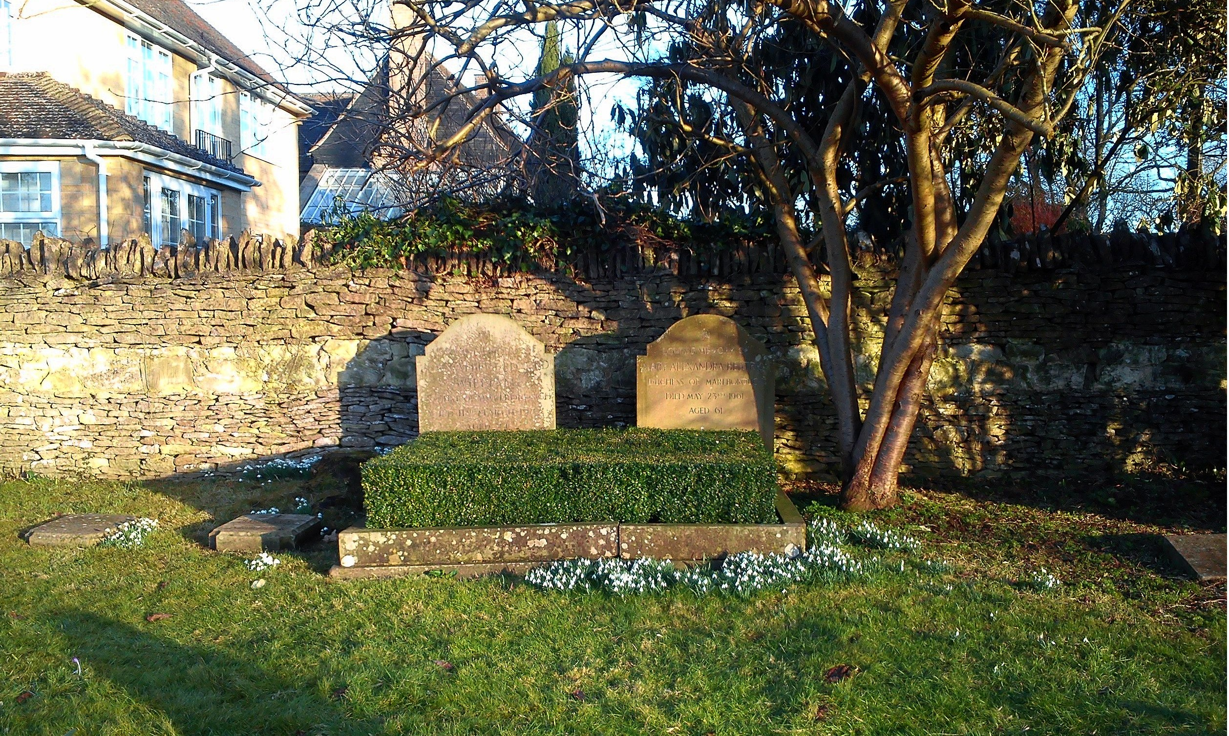 Bladon, Oxfordshire - St Martin's Church - churchyard, grave of John Albert William Spencer-Churchill, 10th Duke of Marlborough, and his first wife